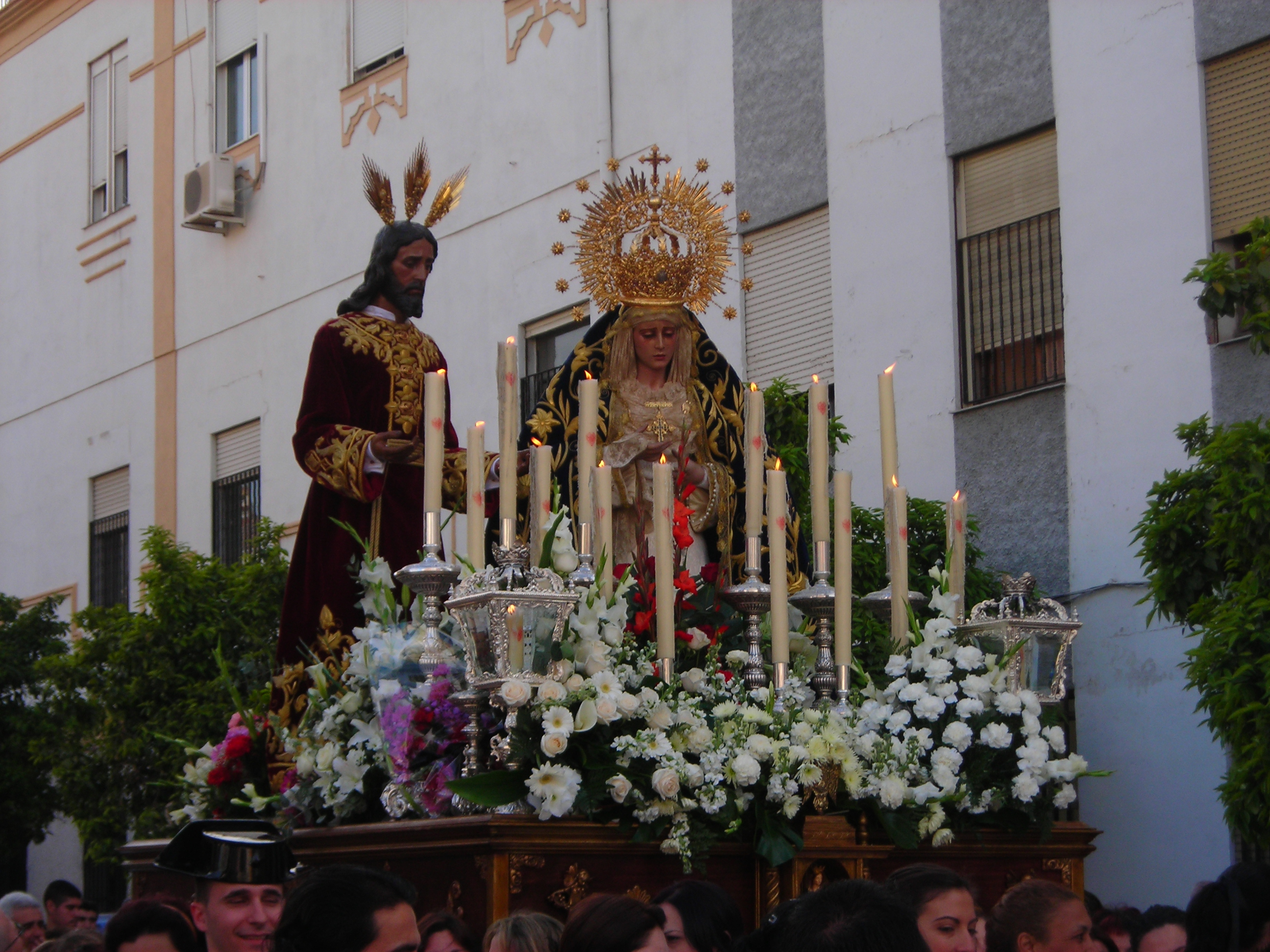 Photo